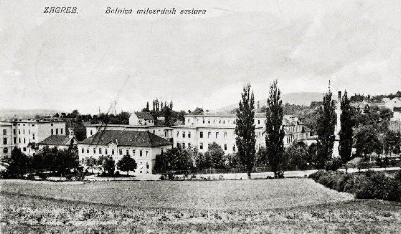 Sisters of Charity Hospital in Zagreb is one of the oldest hospitals in southeastern Europe. This view was taken at some point between construction in 1894 and approximately 1905 (